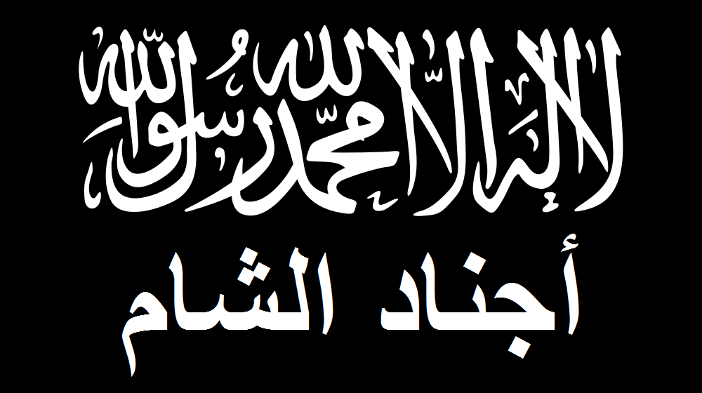 The flag of Ajnad al-Sham, part of the Army of Conquest.